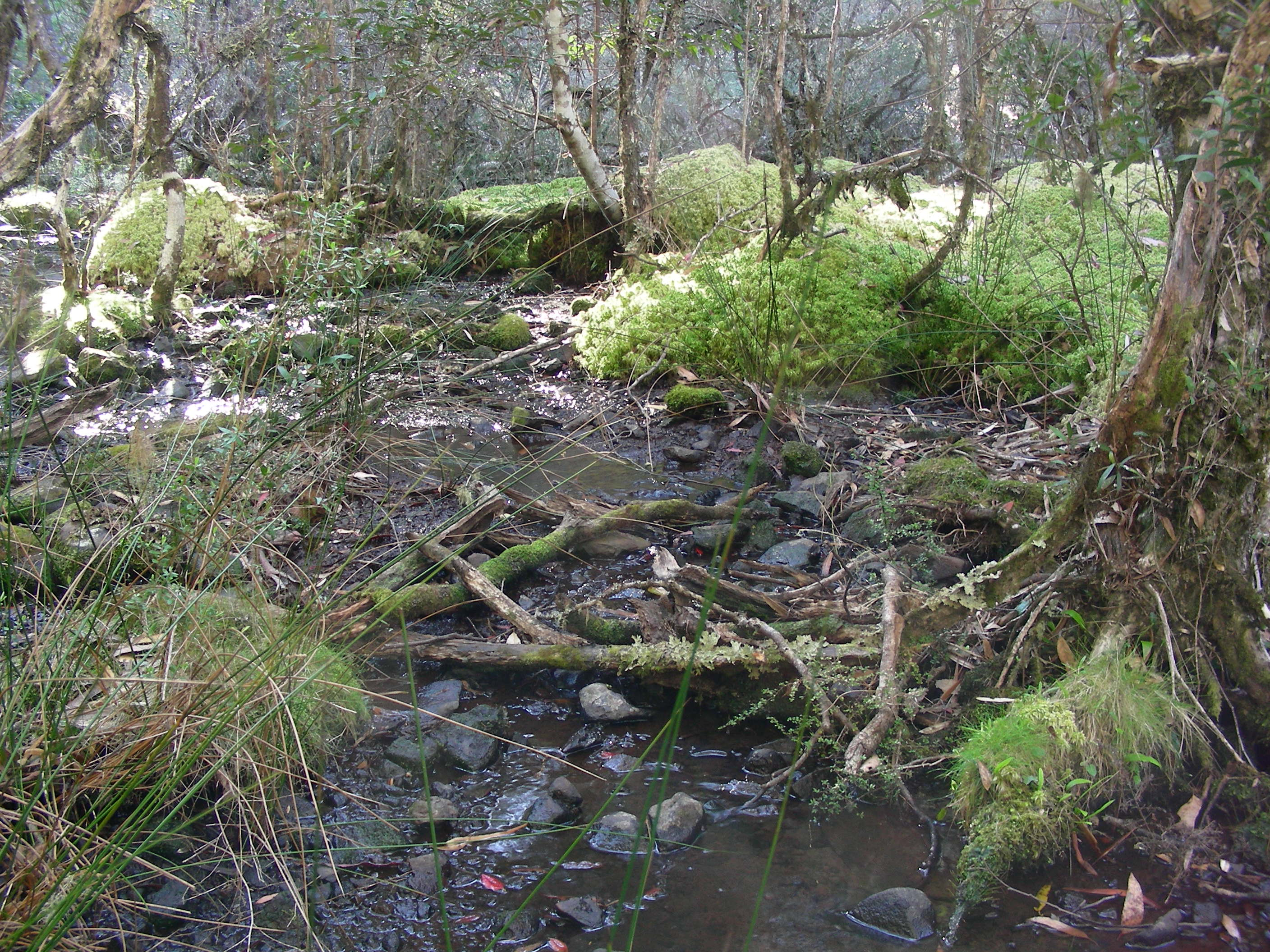 Sphagnum moss within Cool Temperate rainforest - Ben Halls Creek